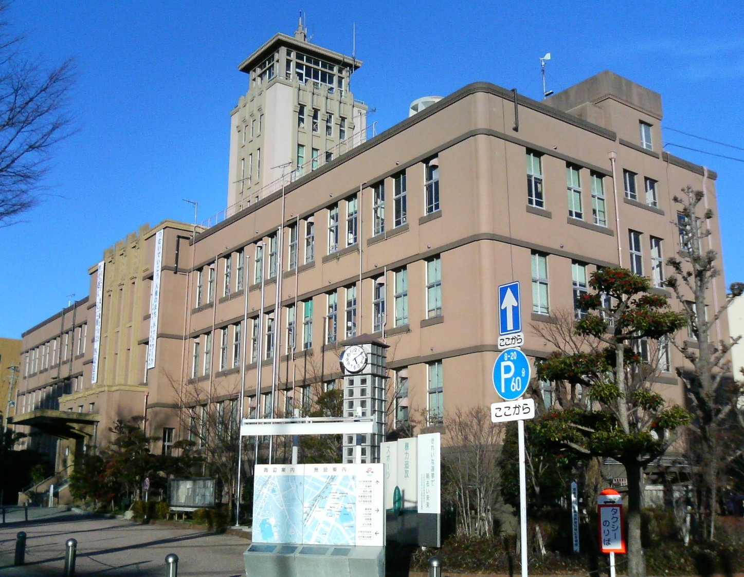 City Office of Omuta, Japan